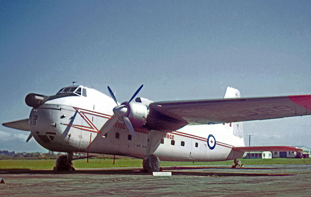 Bristol 170 31M 9699 of the Royal Canadian Air Force at Langar Notts in 1966